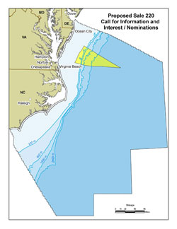 Map showing area of oil and gas lease sale proposed to take place in 2011 for offshore Virginia, US.